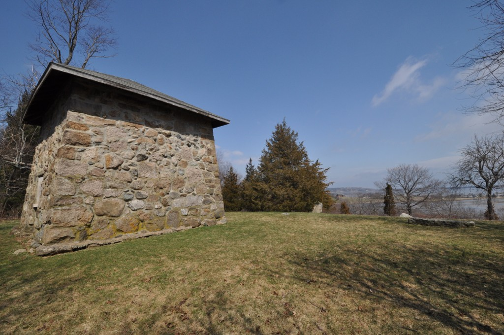 Burnham's Tower and a view of the coast from atop Whites Hill, in the Stavros Reservation, Essex, Massachusetts.